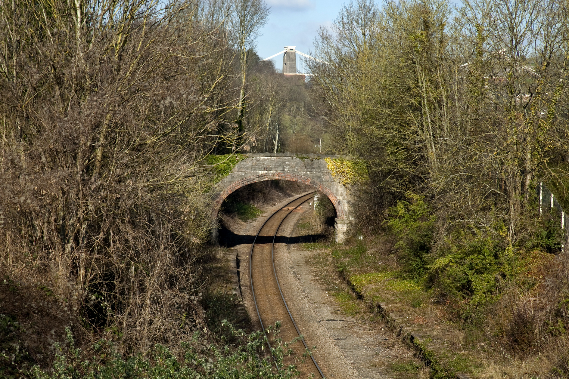 The site of Ashton Gate railway station on the Portishead Branch Line.